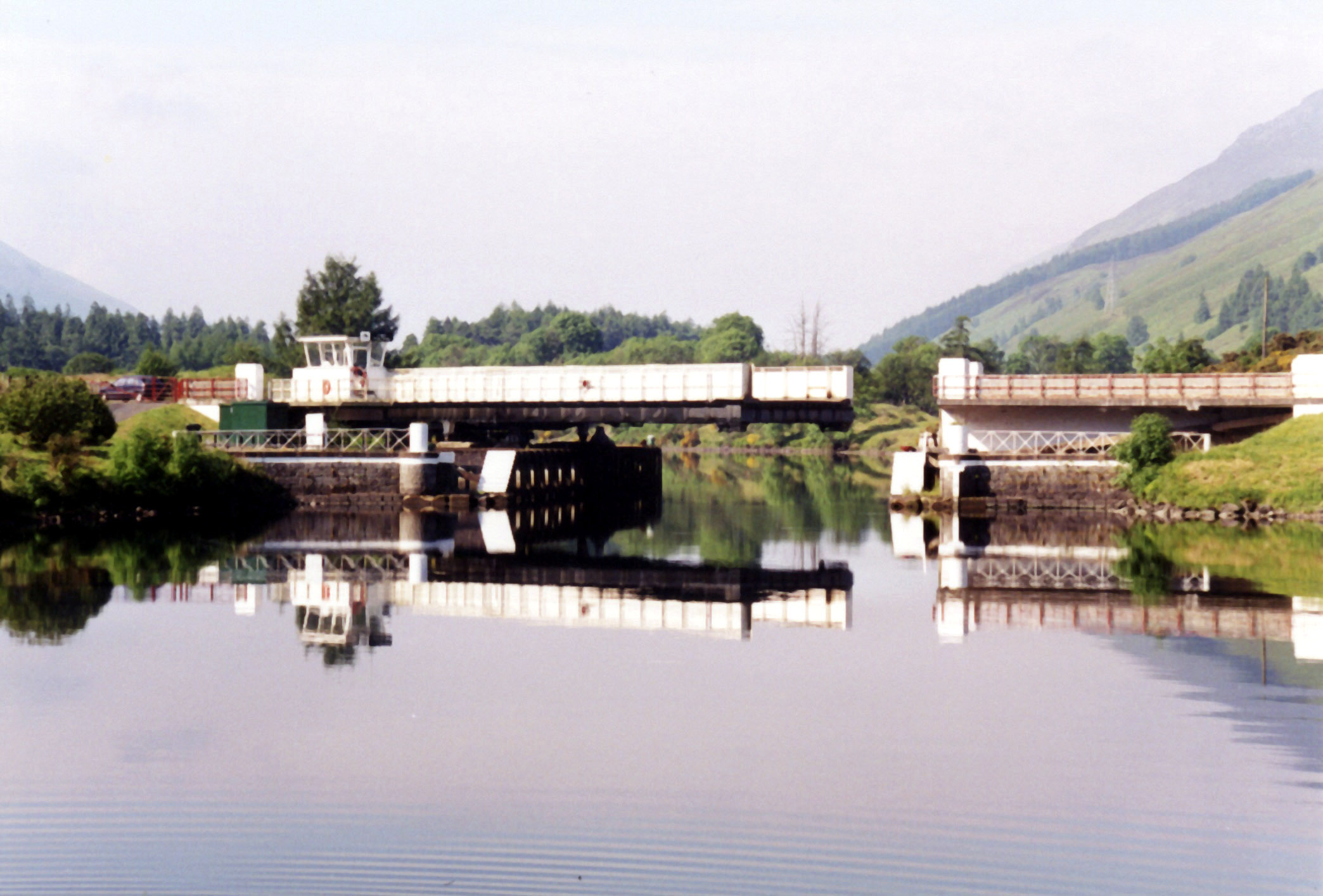 Laggan bridge Opening to let us through from a night in the Great Glen Water Park.